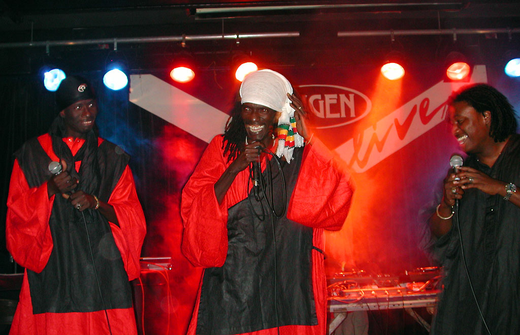 Positive Black Soul in Vienna, Austria ("Reigen")